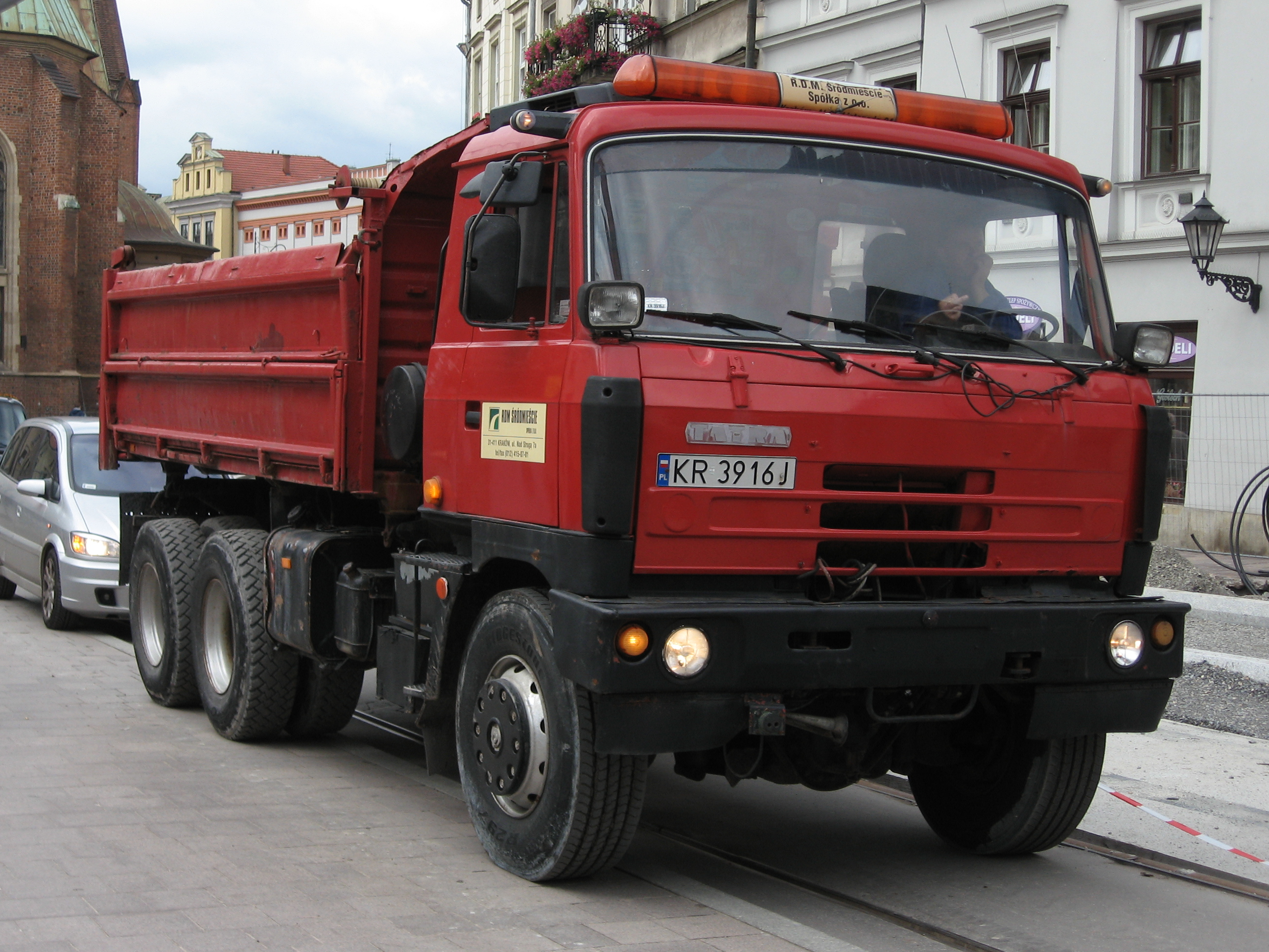 Red Tatra dump truck during reconstruction of Plac Wszstkich Świętych and Dominikańska streets in Kraków.